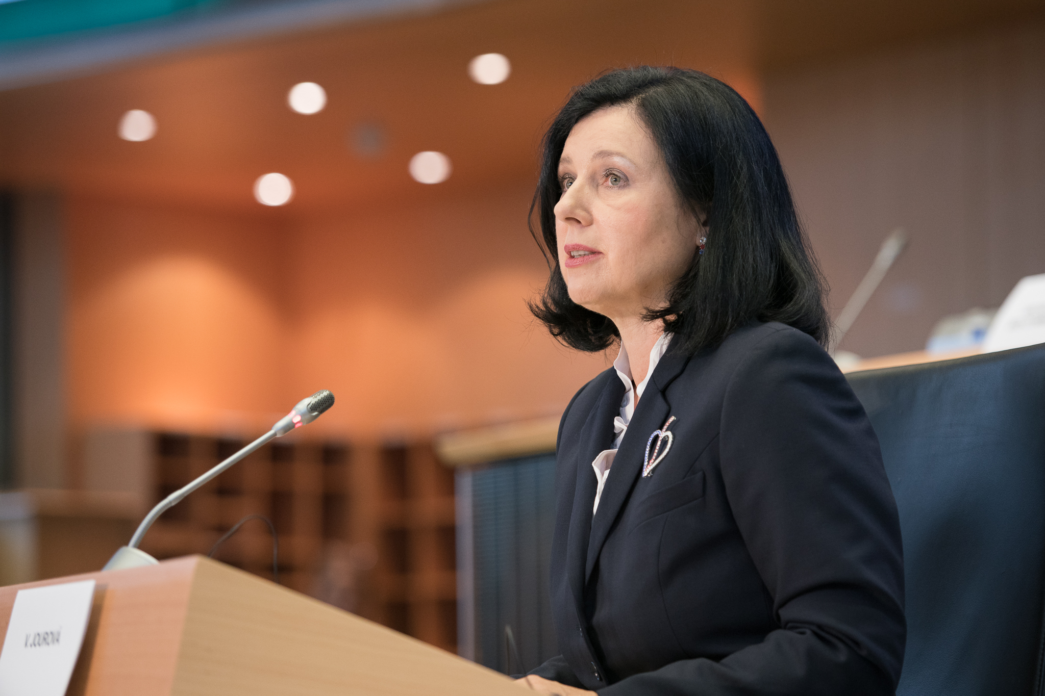 Before the European Parliament can vote the new European Commission led by Ursula von der Leyen into office, parliamentary committees will assess the suitability of commissioners-designate. On 23-26 May, more than 200,000,000 people in 28 EU countries went to the polls to elect members of the European Parliament, giving them a strong democratic mandate, including voting into office the new European Commission and examining the competencies and abilities of its commissioners-designate. Elected members of the European Parliament will also listen to their ideas and will assess their willingness to take concrete actions on the issues that Europeans care about. Each candidate commissioner is invited for a live-streamed, three-hour hearing in front of the committee or committees responsible for their proposed portfolio. The hearings will take place between Monday 30 September and Tuesday 8 October. This photo is free to use under Creative Commons license CC-BY-4.0 and must be credited: "CC-BY-4.0: © European Union 2019 – Source: EP". No model release form if applicable. For bigger HR files please contact: webcom-flickr(AT)